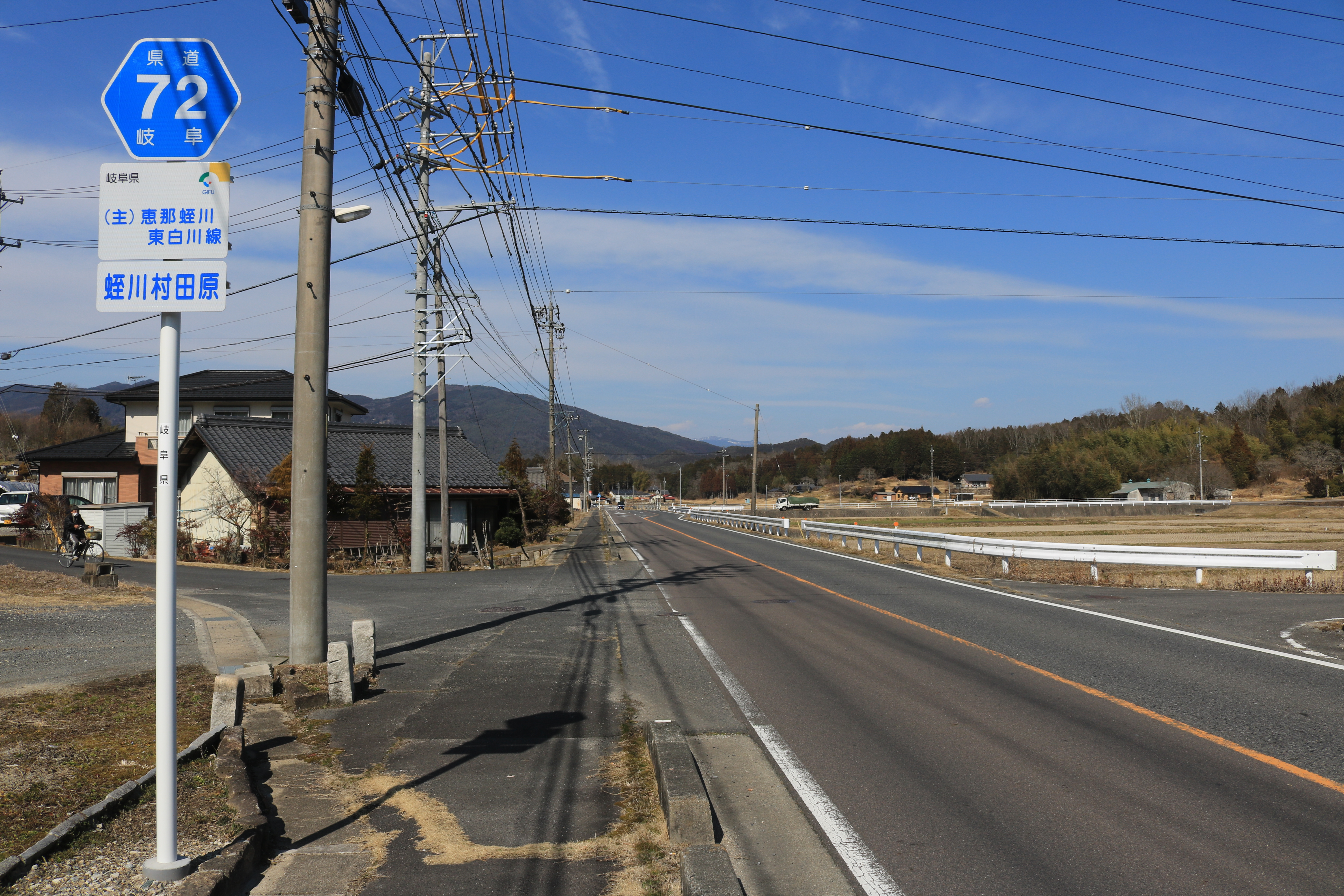 Gifu Prefectural Road Route 72 in Hirukawa, Ena, Gifu prefecture, Japan.